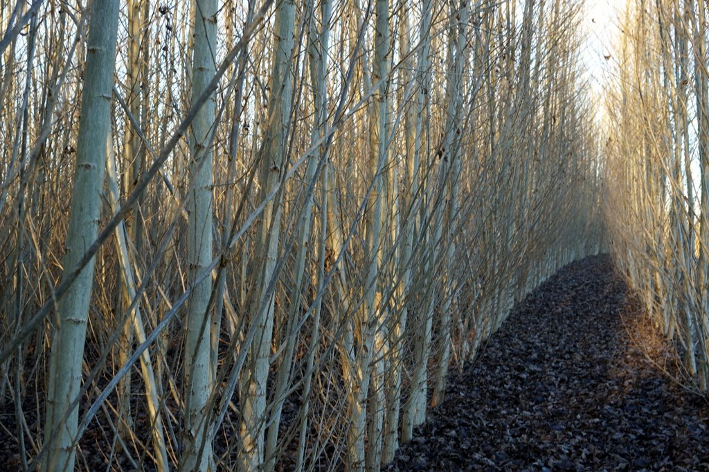 4 years old poplar plantation in Germany before harvest